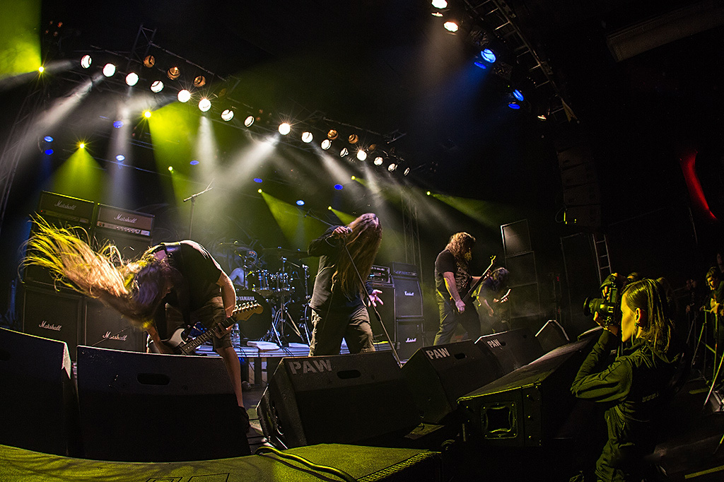 Obituary - 7.12.2012 - Music Hall, Geiselwind